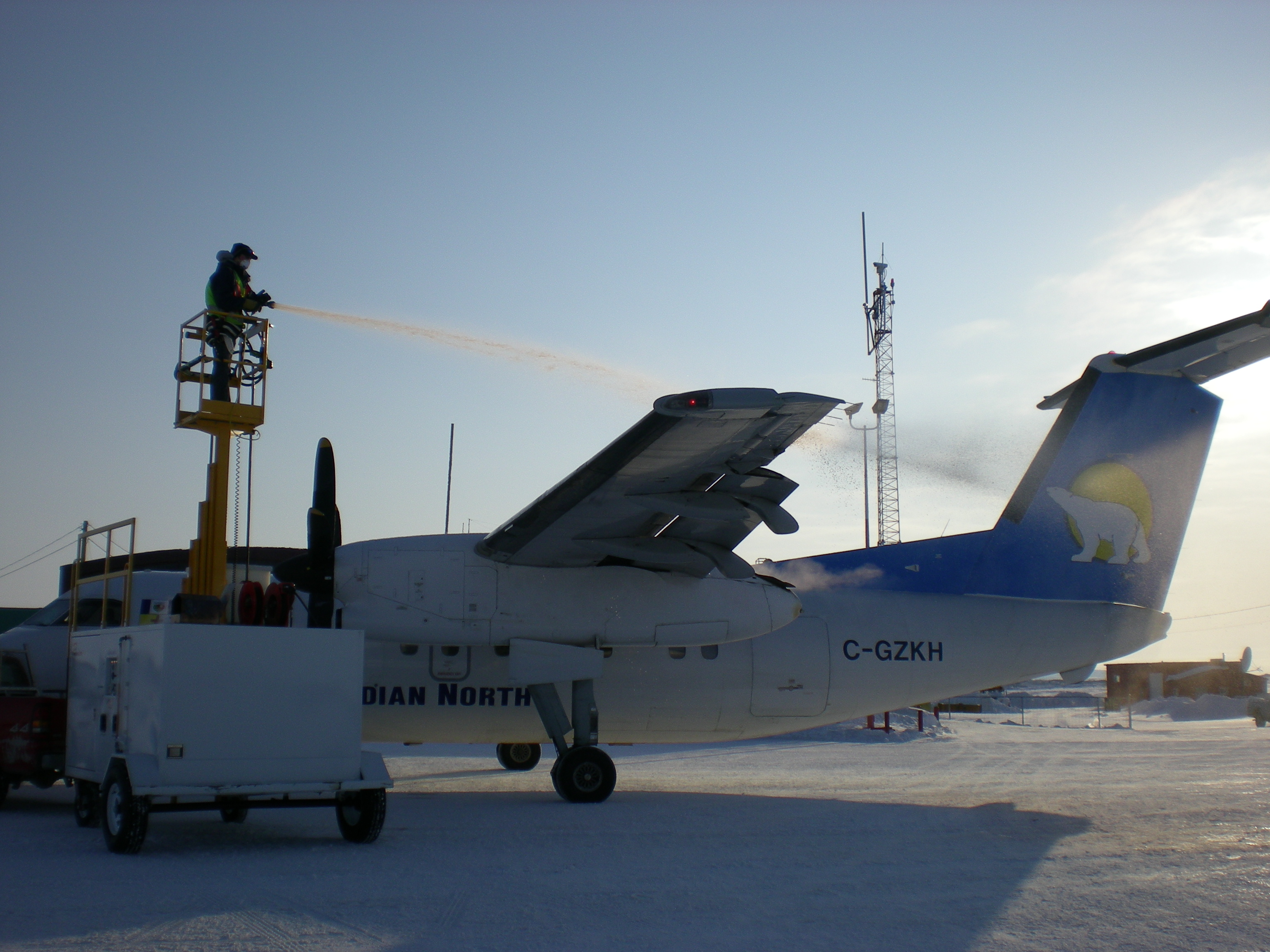 De-icing Canadian North De Havilland Canada DHC-8 Dash 8